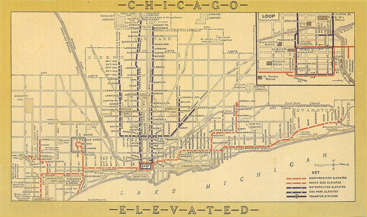 Map of elevated rapid transit lines in Chicago. Contains lines run by four companies; the Metropolitan West Side Elevated Railroad, South Side Elevated Railroad, Northwestern Elevated Railroad, and Oak Park Elevated Railroad.